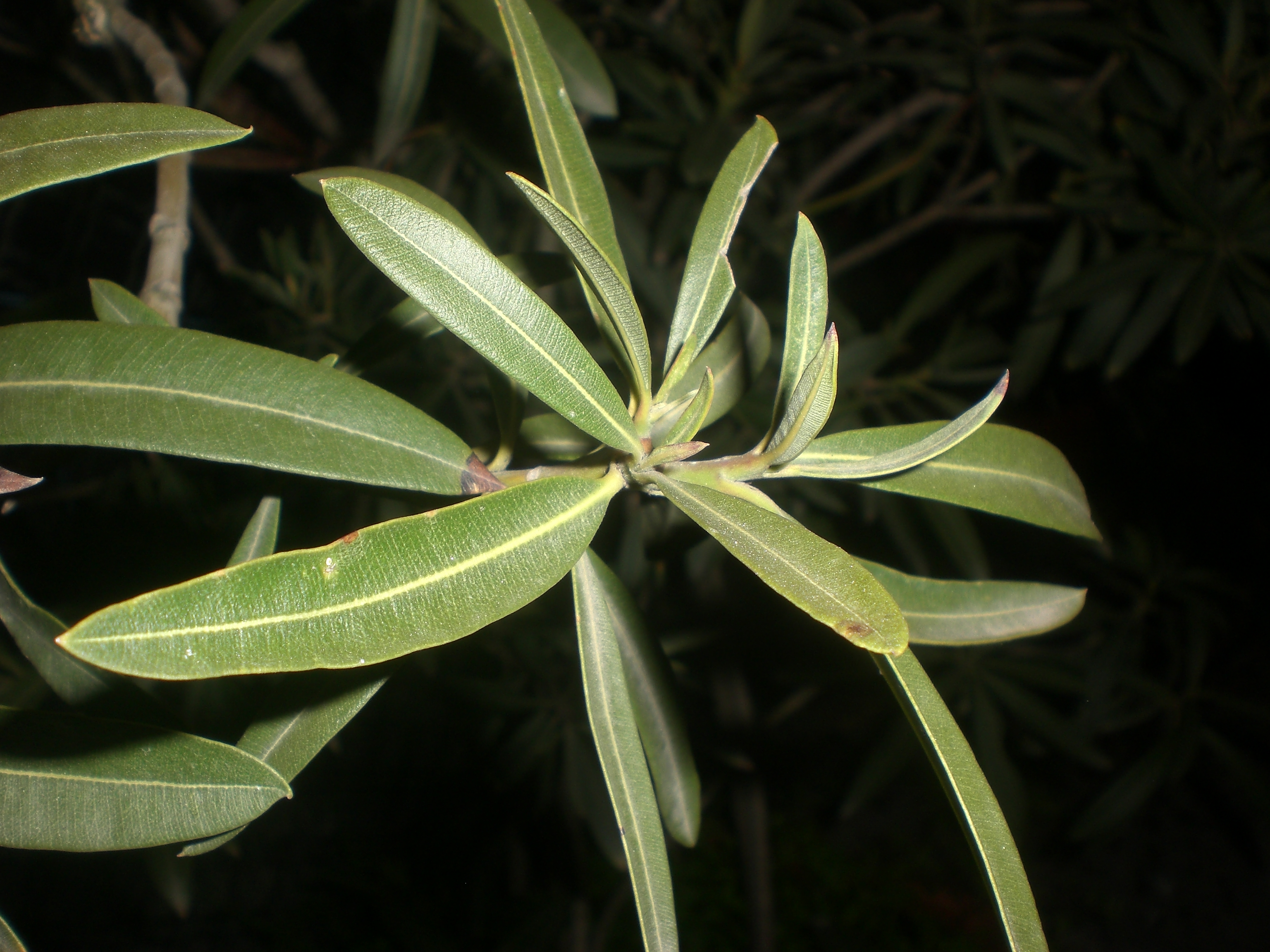 The ending of a nerium oleander without flowers.